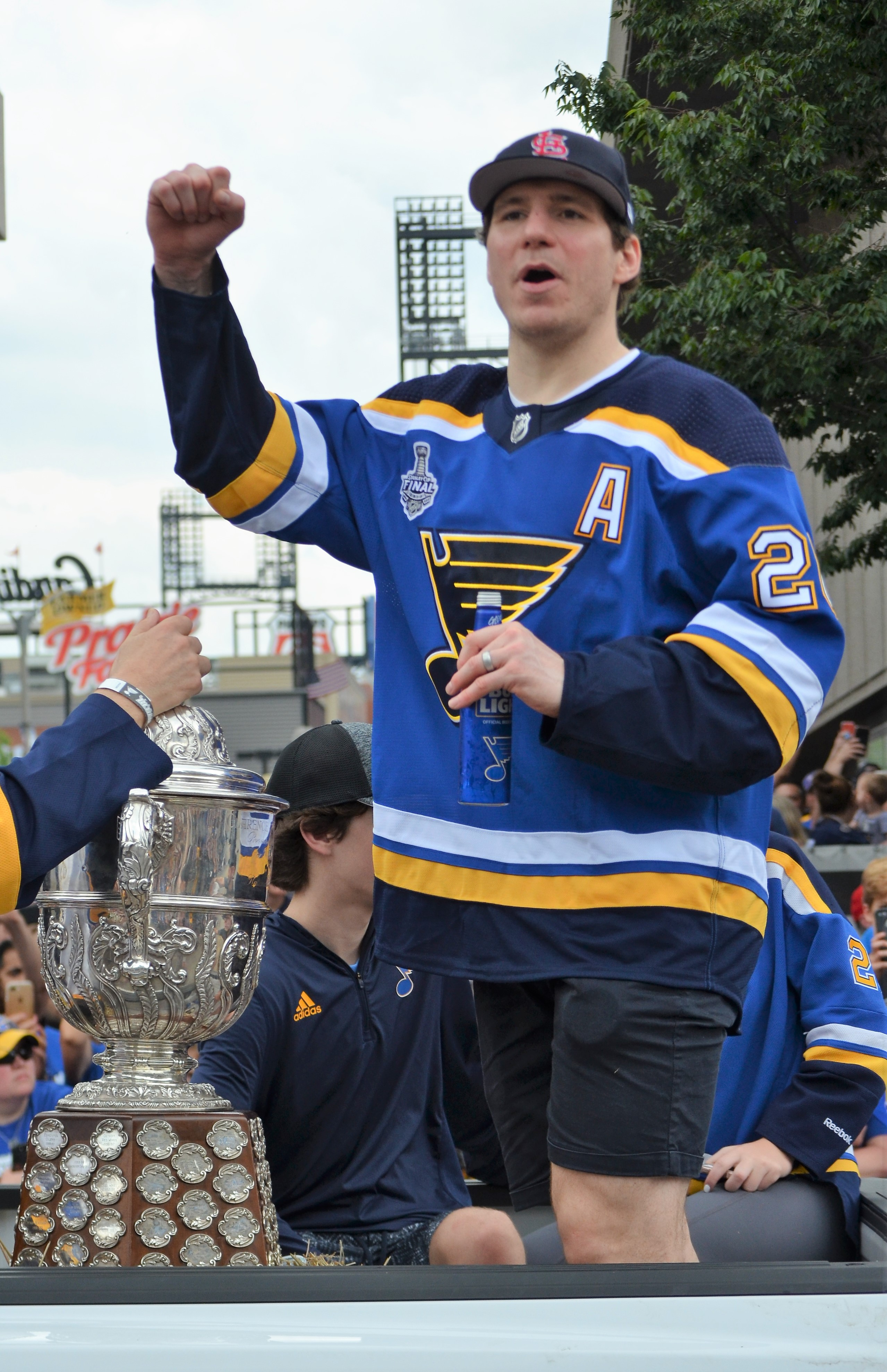 Alexander Steen during the 2019 Stanley Cup parade